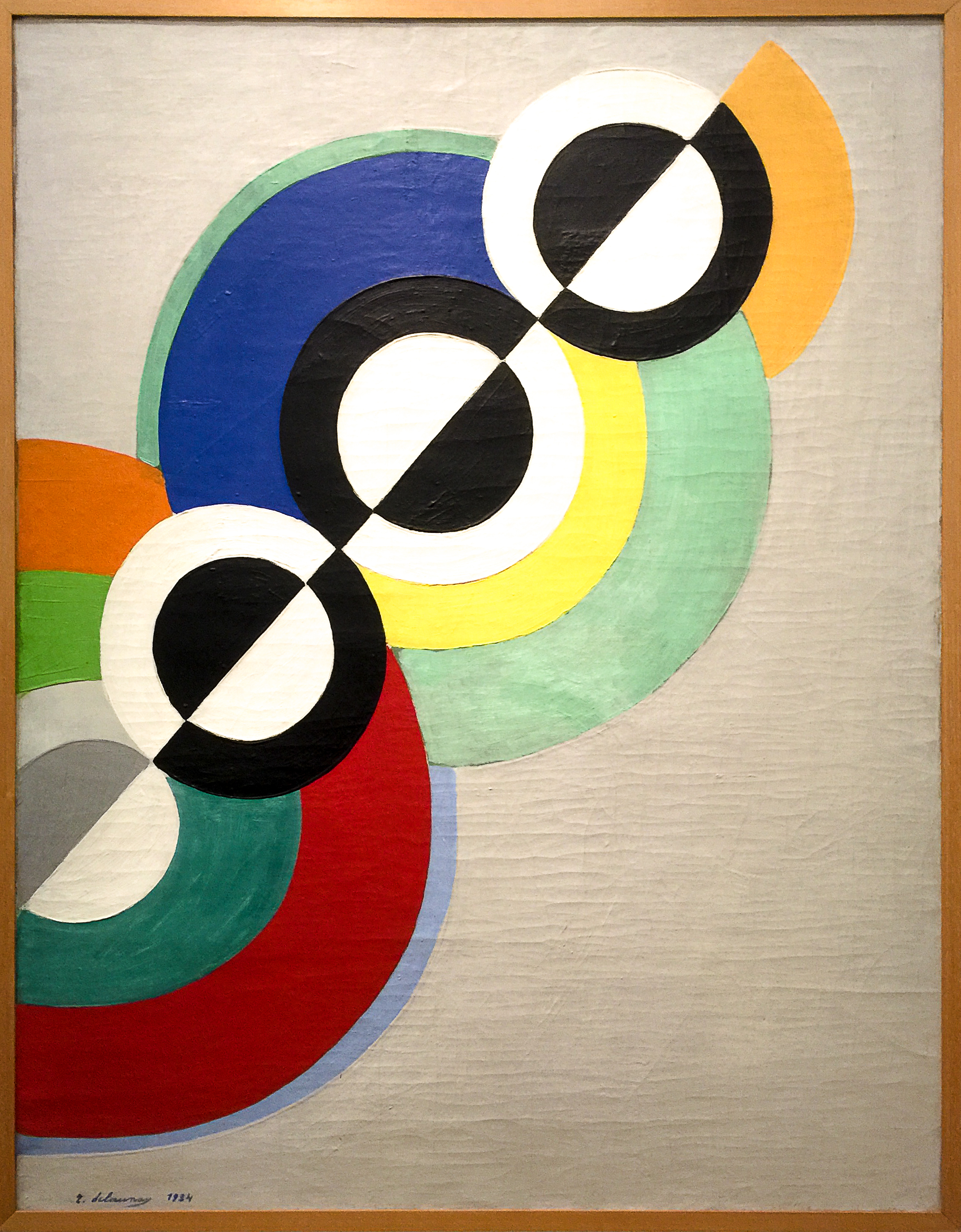 Robert Delaunay - Rythmes sans fin exhibition. 15 October 2014 - 12 January 2015, Centre Georges Pompidou, Paris.